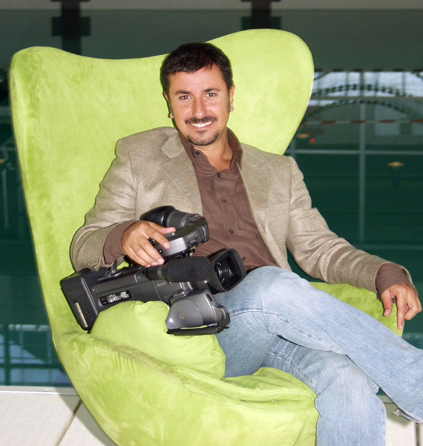 Fabio Magnifico